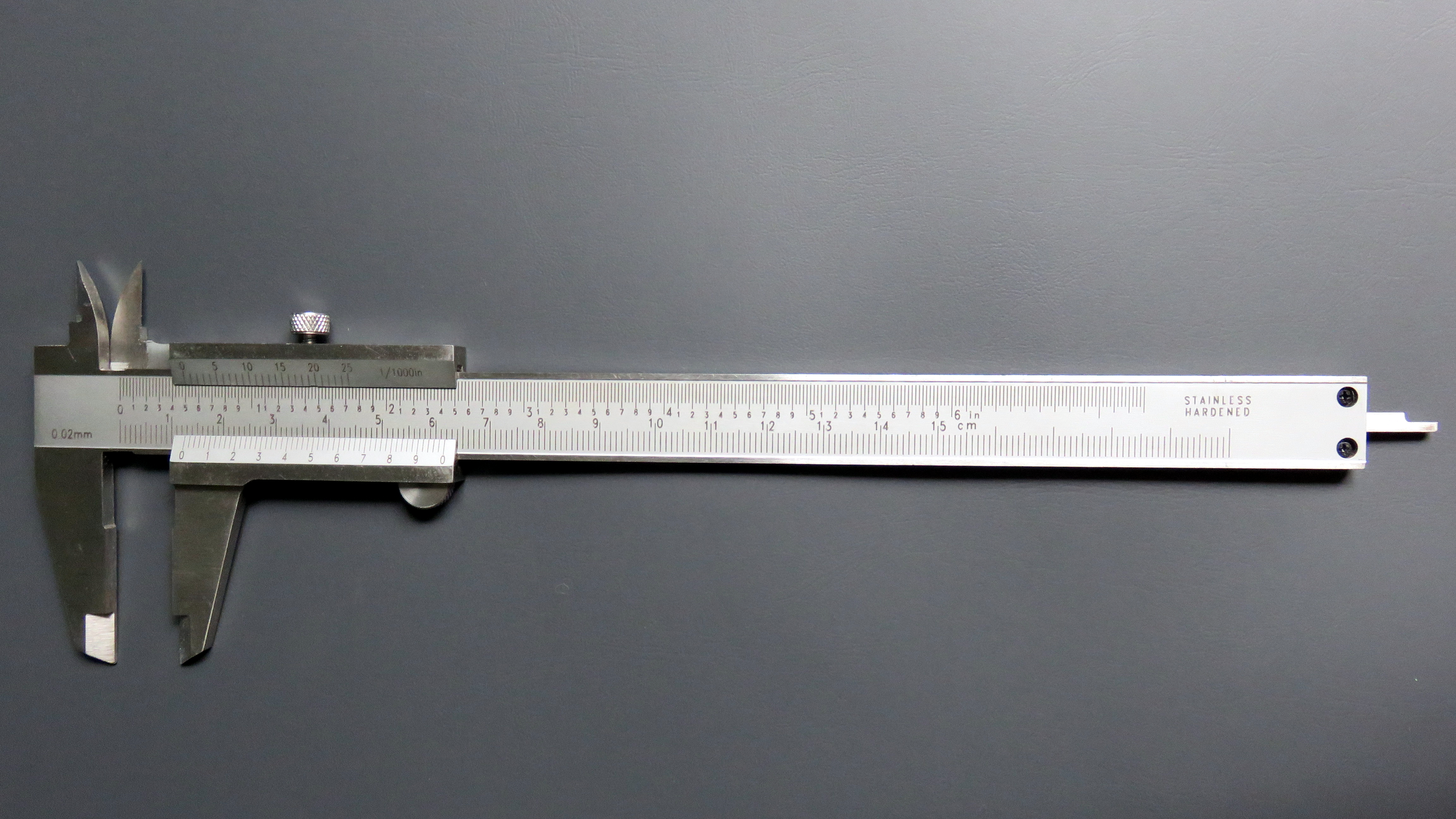 Caliper